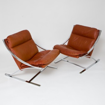 "Z" chair designed in 1964 by Paul Tuttle